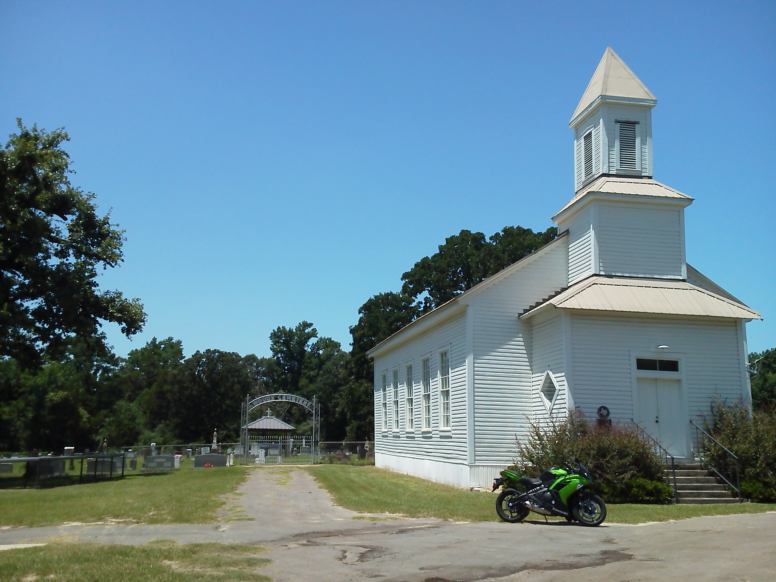 Modern day Woods Community in southern Panola County is home to the Woods Cemetery and the old Concord Methodist Church. The church and cemetery can be found on County Road 425.